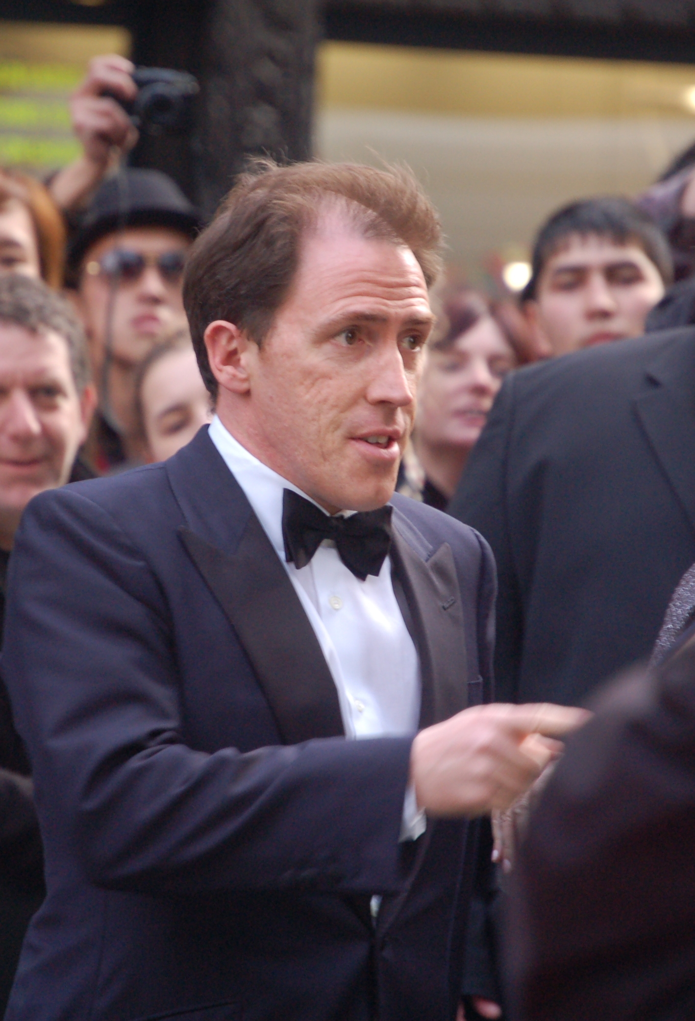 Taken just before the BAFTA awards, London. Originally this was on the Flickr website: of which I am a member.